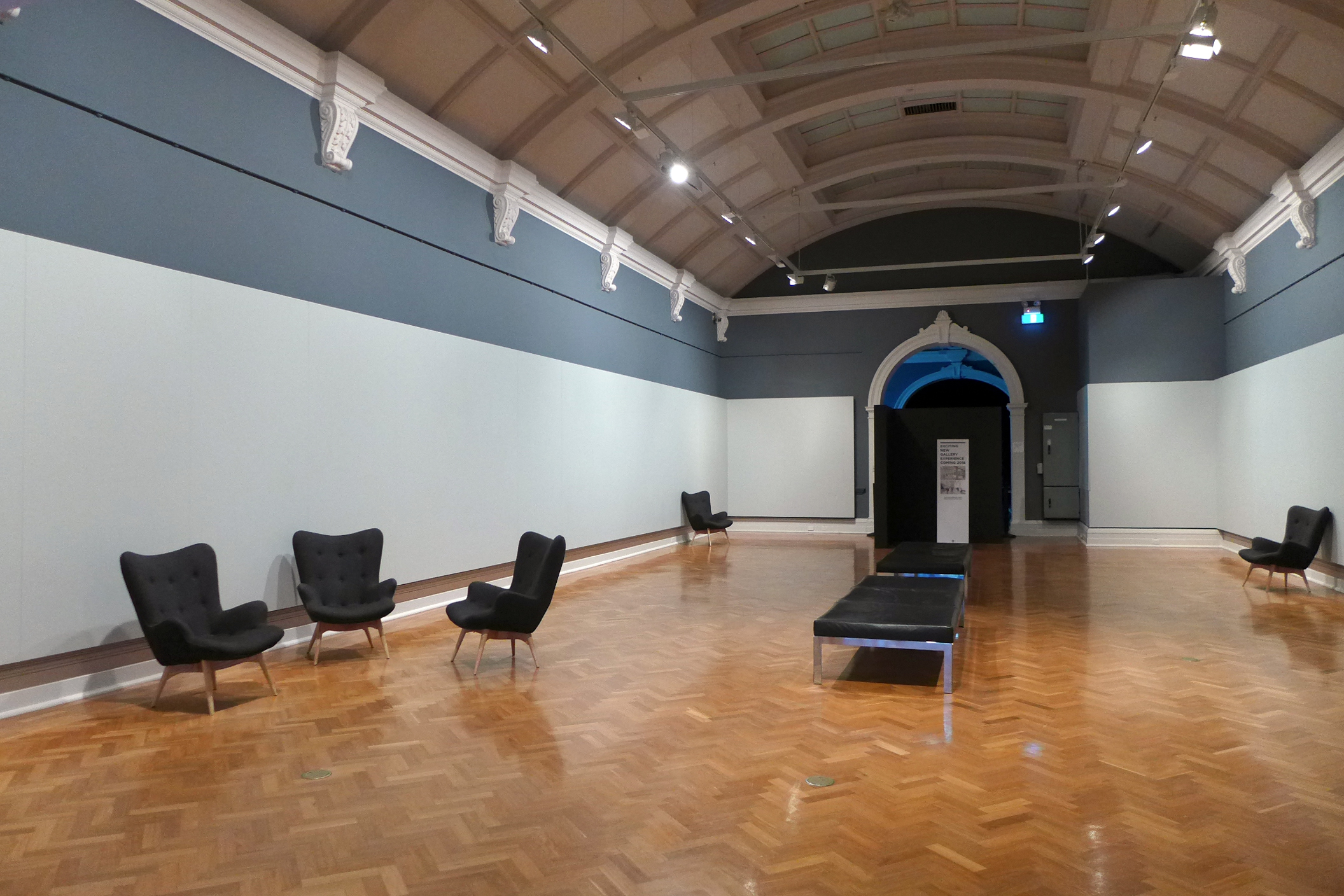 State Library of New South Wales Level 2 Gallery